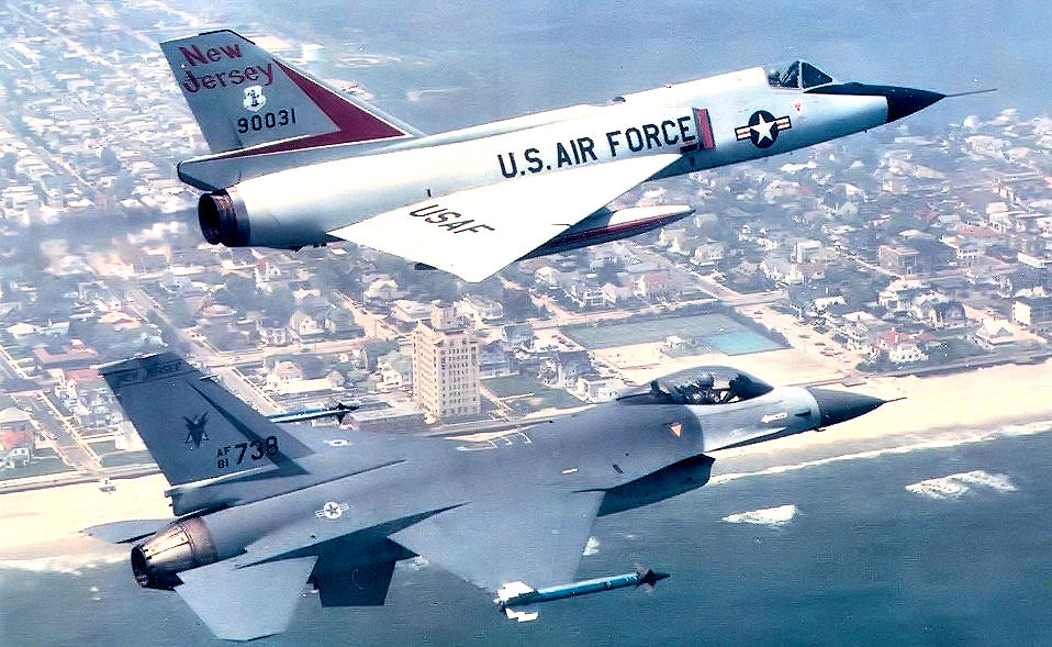 Last F-106 with an F-16 of the New Jersey Air National Guard 119th Fighter-Interceptor Squadron